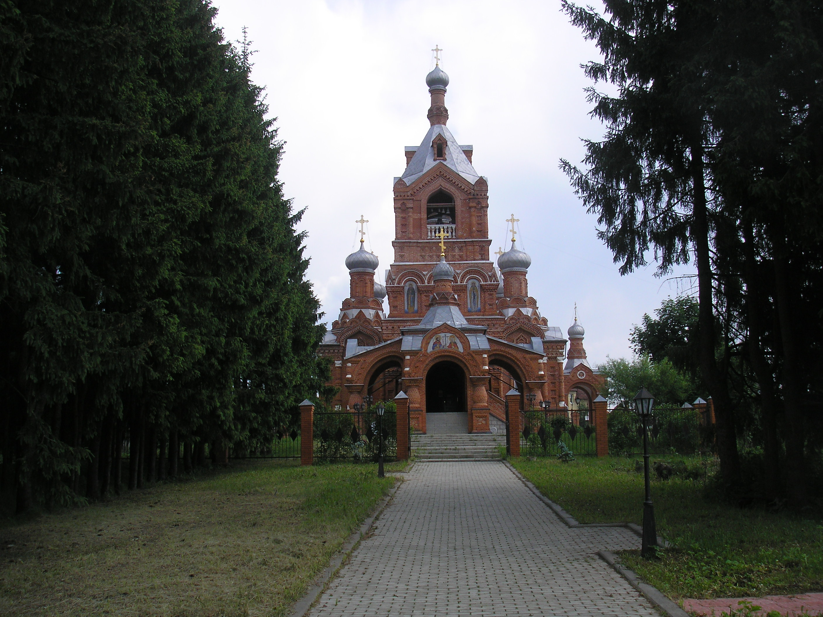 The church in the village of Darna, Istra district, Moscow region.